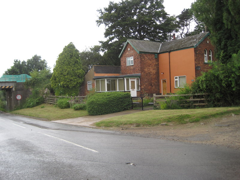 Potterhanworth railway station, LincolnshireOnly the station house is visible from the road. The station entrance was to the right, leading up to rail level. The station was opened in 1882 by the Great Northern and Great Eastern Railways on their joint line from Lincoln to Sleaford. It closed in 1955.